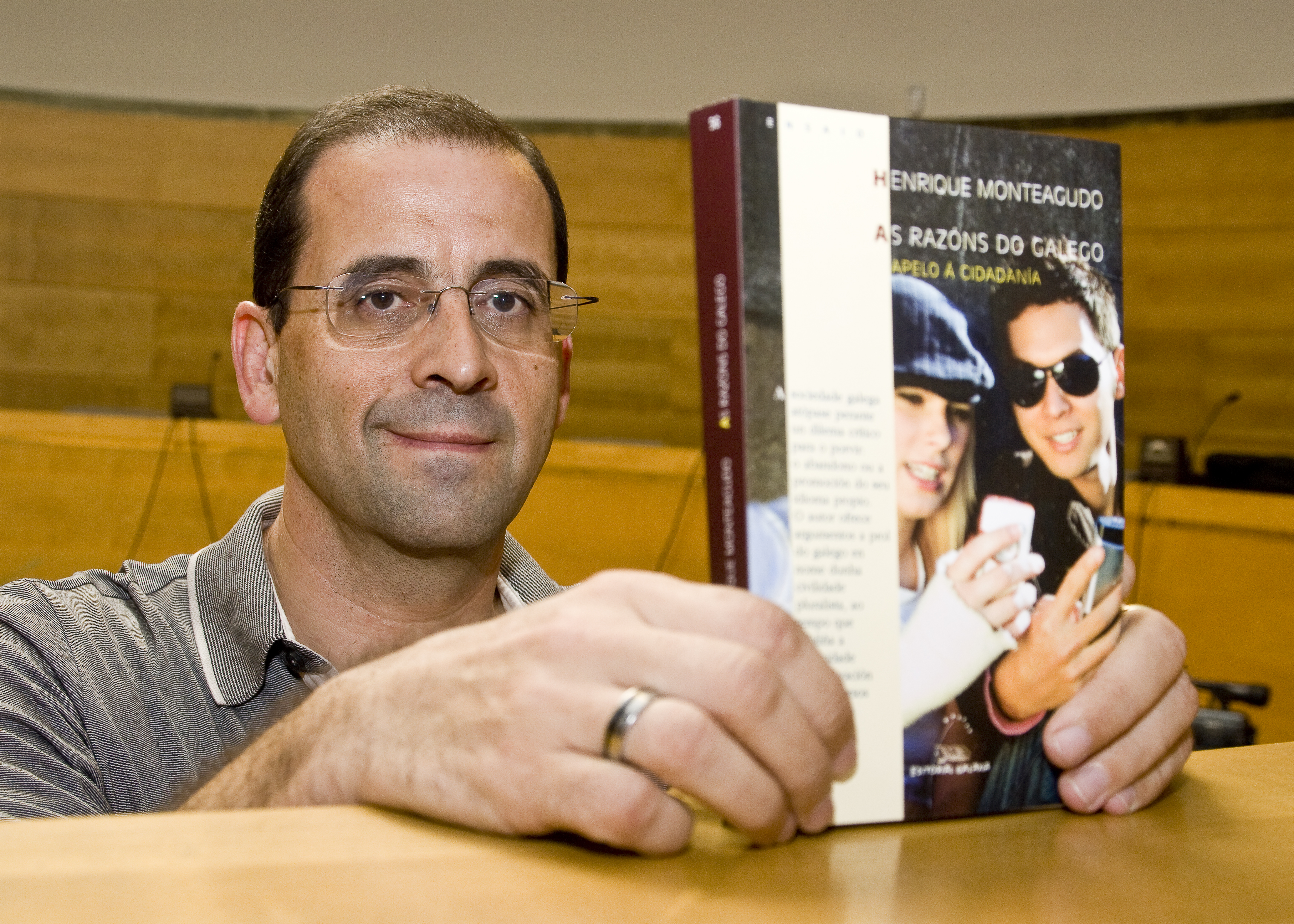 Photograph of Henrique Monteagudo